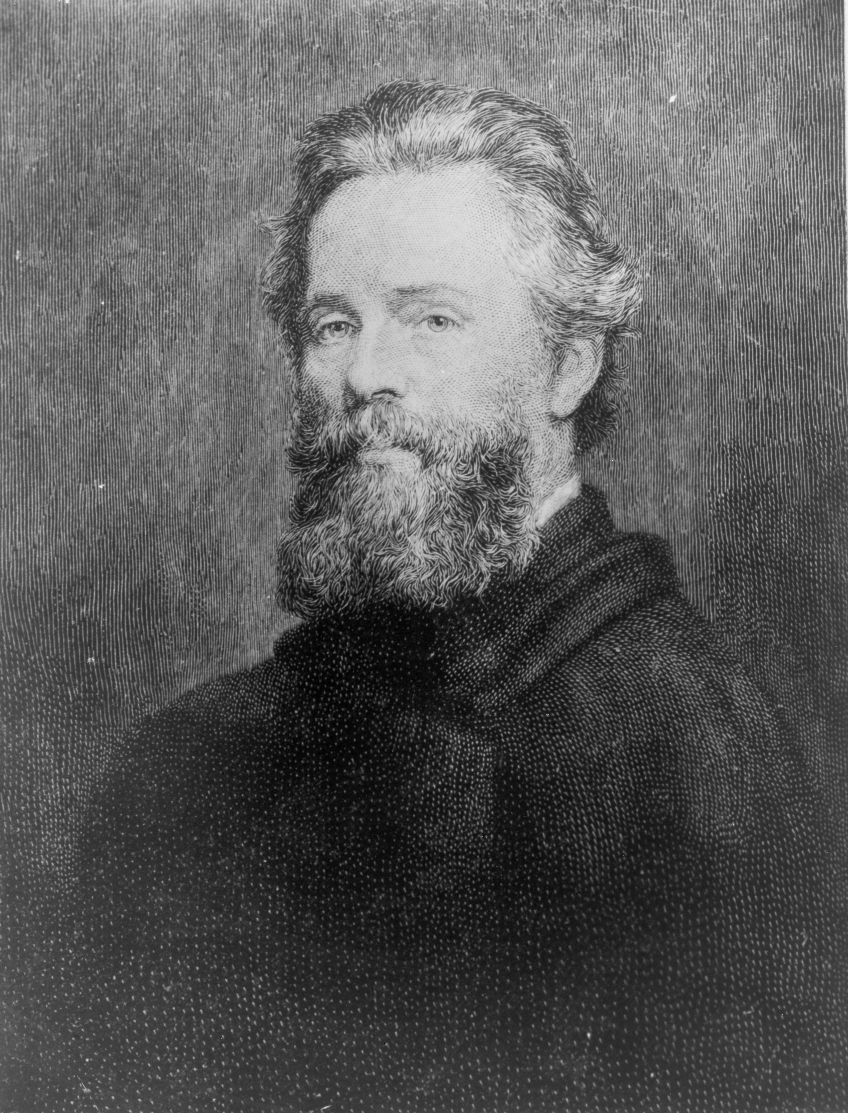 Portrait of Joseph Oriel Eaton's portrait of Herman Melville